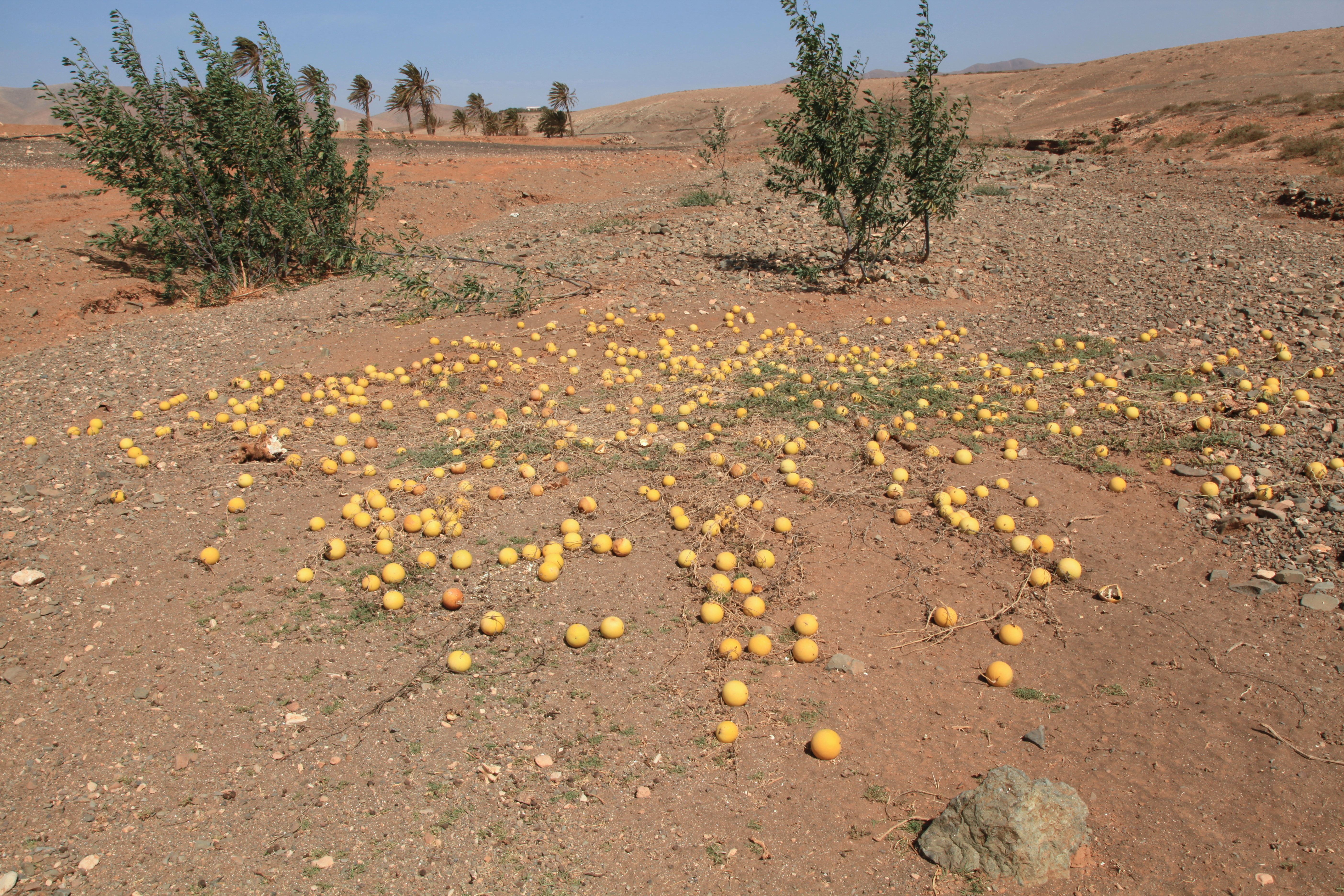 Nicotiana glauca and Citrullus colocynthis growing at FV-20 in Tuineje, Fuerteventura, Canary Islands